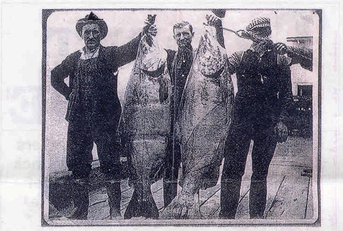 Large Chinook salmon displayed at the Union Fisherman's Dock in Astoria, Oregon.